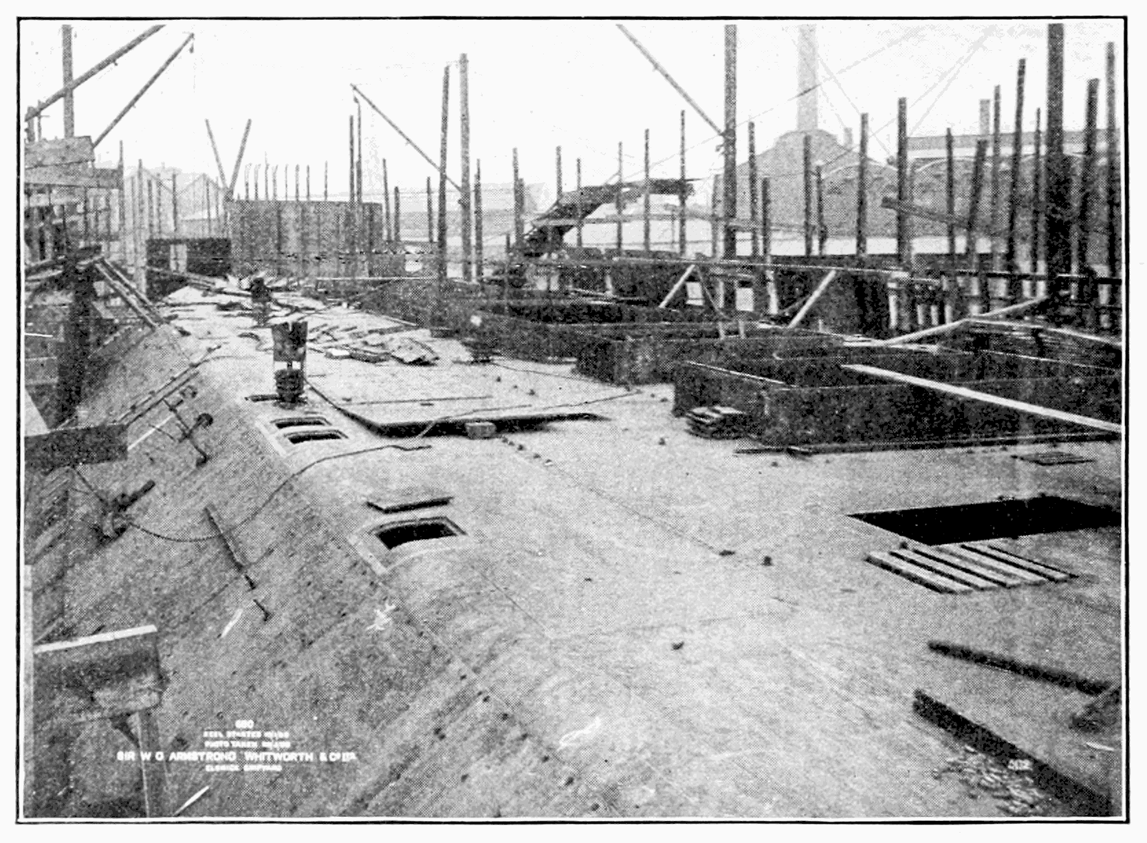 Battleship Hatsuse showing the protective deck